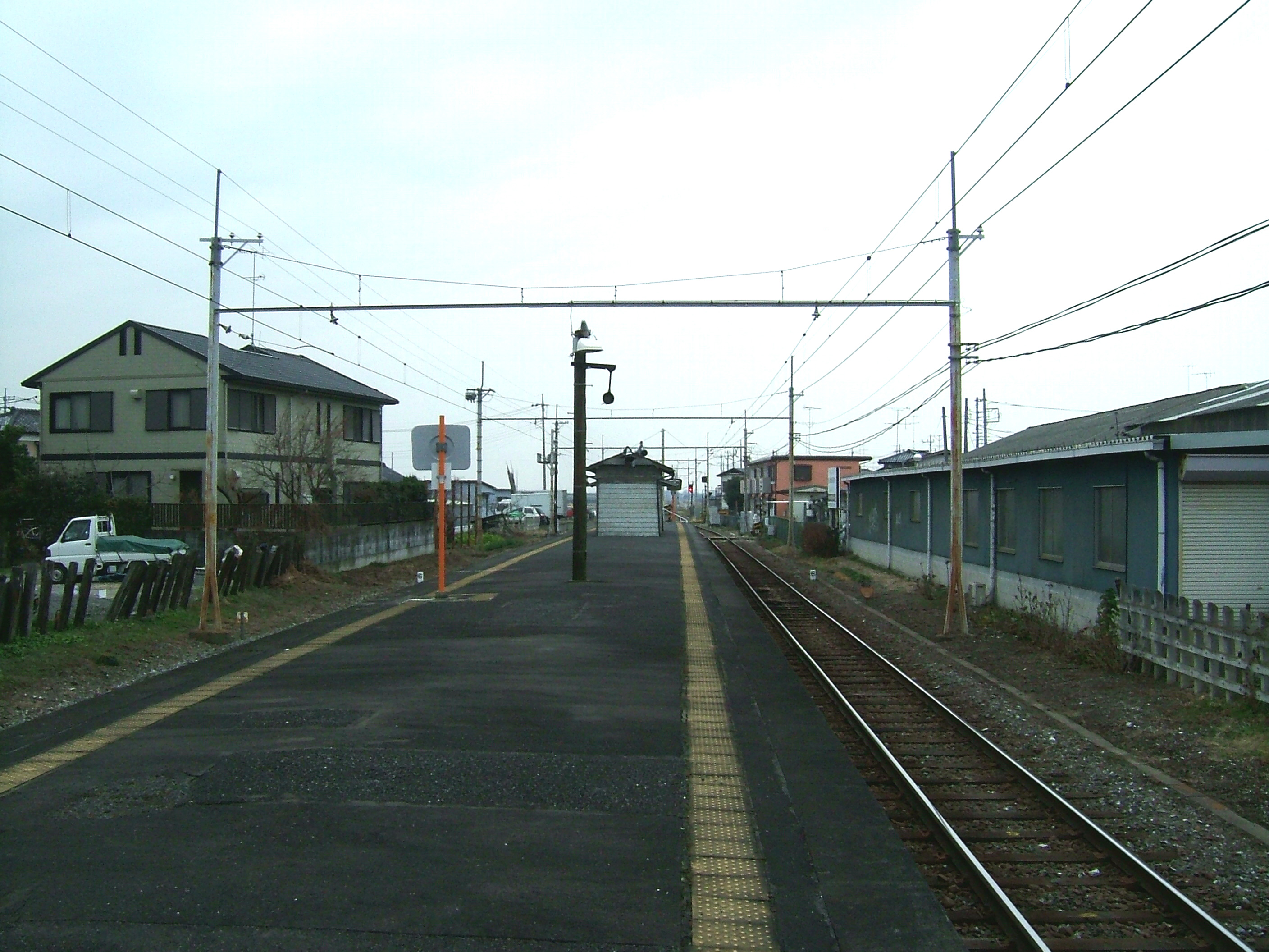 The platform at Shingō Station on the Chichibu Main Line in Hanyu city, Saitama Prefecture, Japan